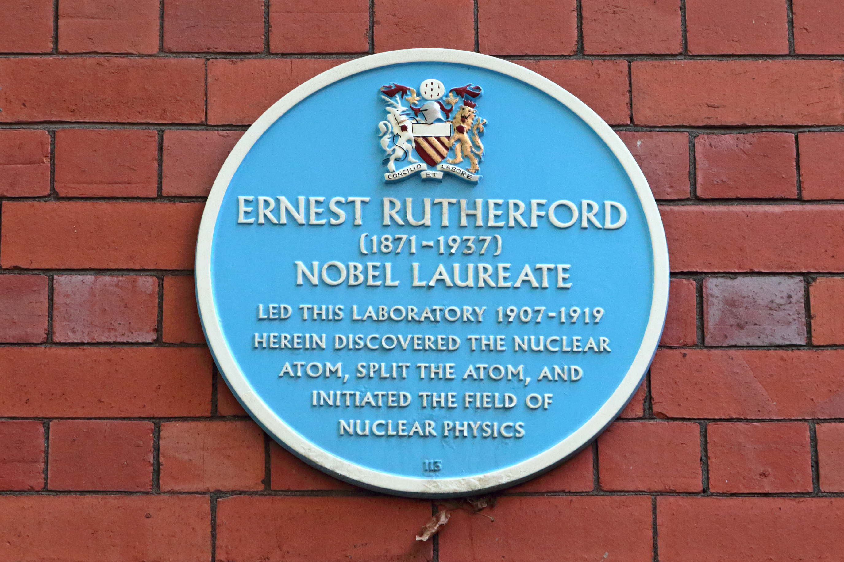 An image of the blue plaque commemorating the research carried out by Ernest Rutherford in the field of nuclear physics.